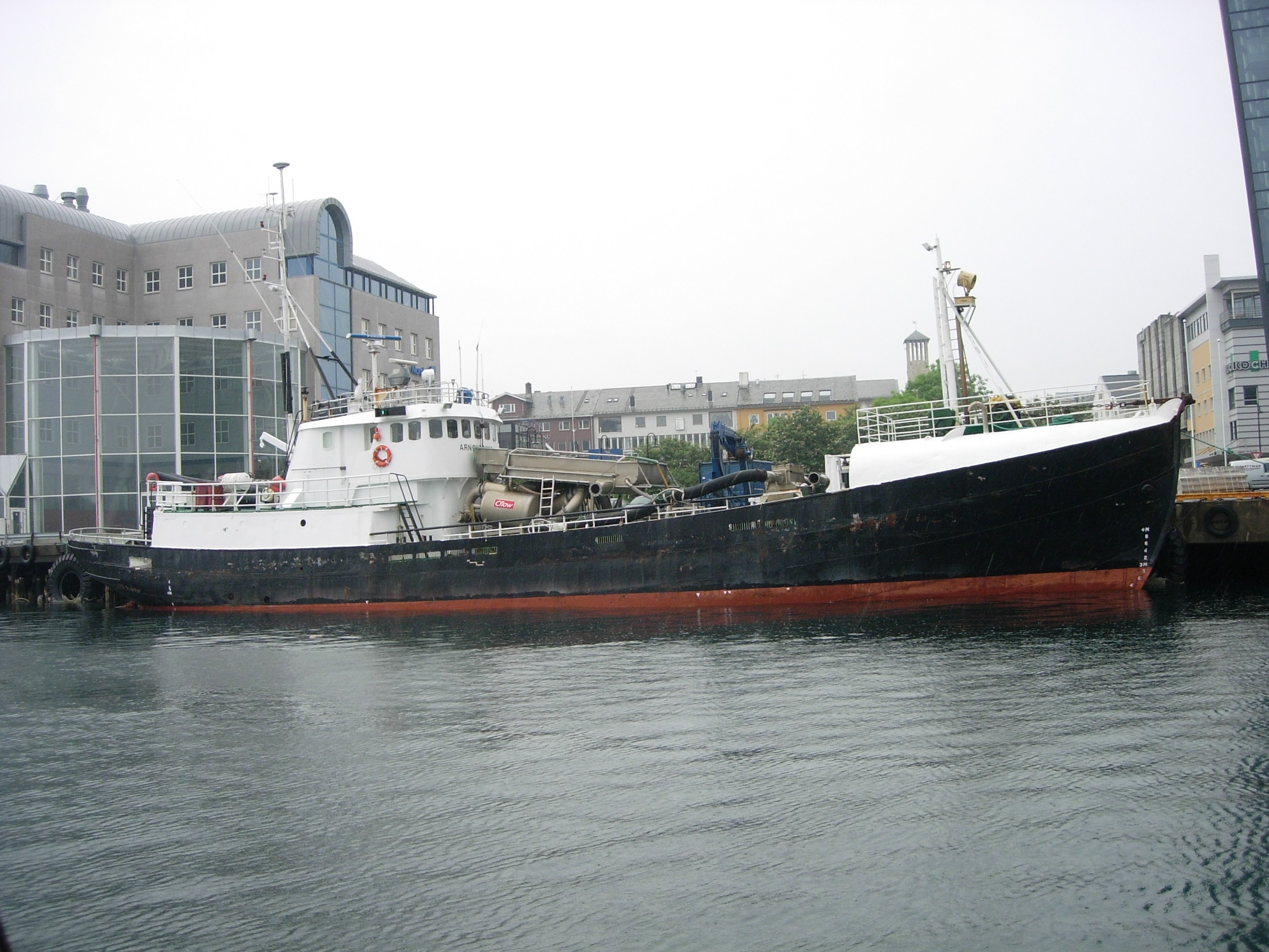 the hull ship "Arnøytrans", it was formerly known as HNoMS Pol III, where the captain was the first casulty during WW2 in Norway